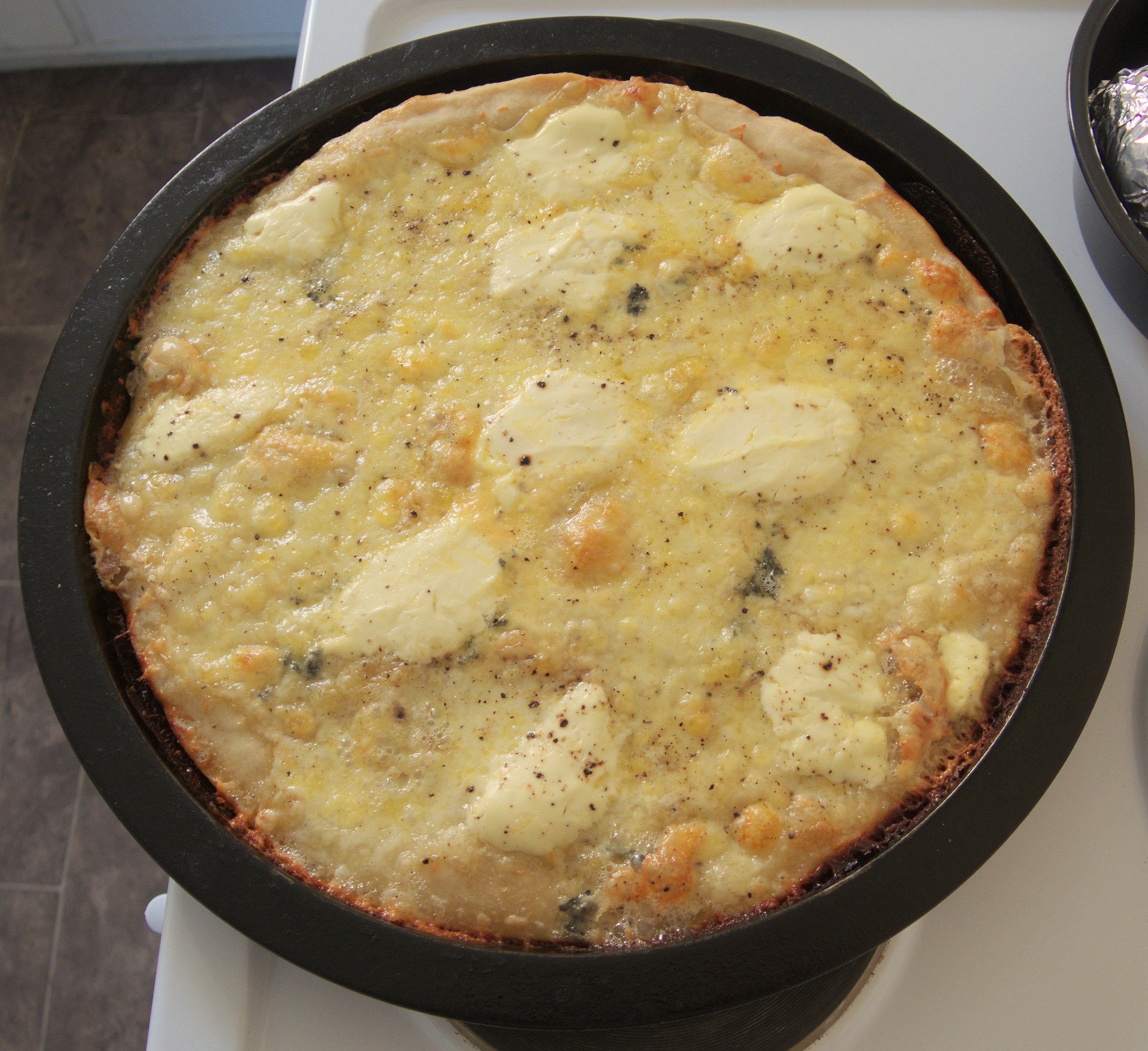 Home-made pizza with various types of cheese and spices.